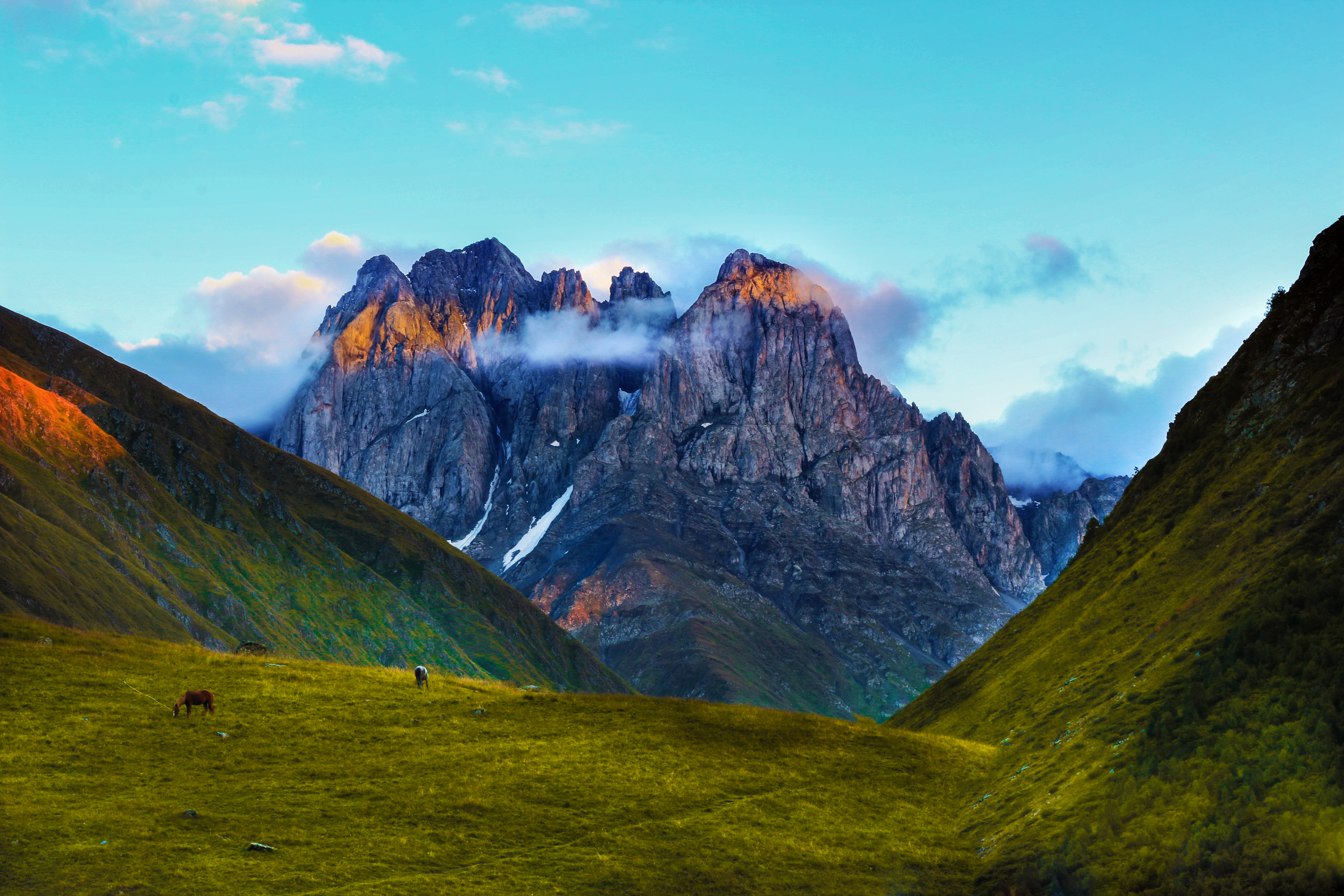 Juta — village in Kazbegi Municipality. Located on the southern slope of the main ridge of Kavkasioni. Kazbegi National Park